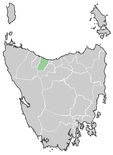 Council of Central Coast, Tasmania Australia